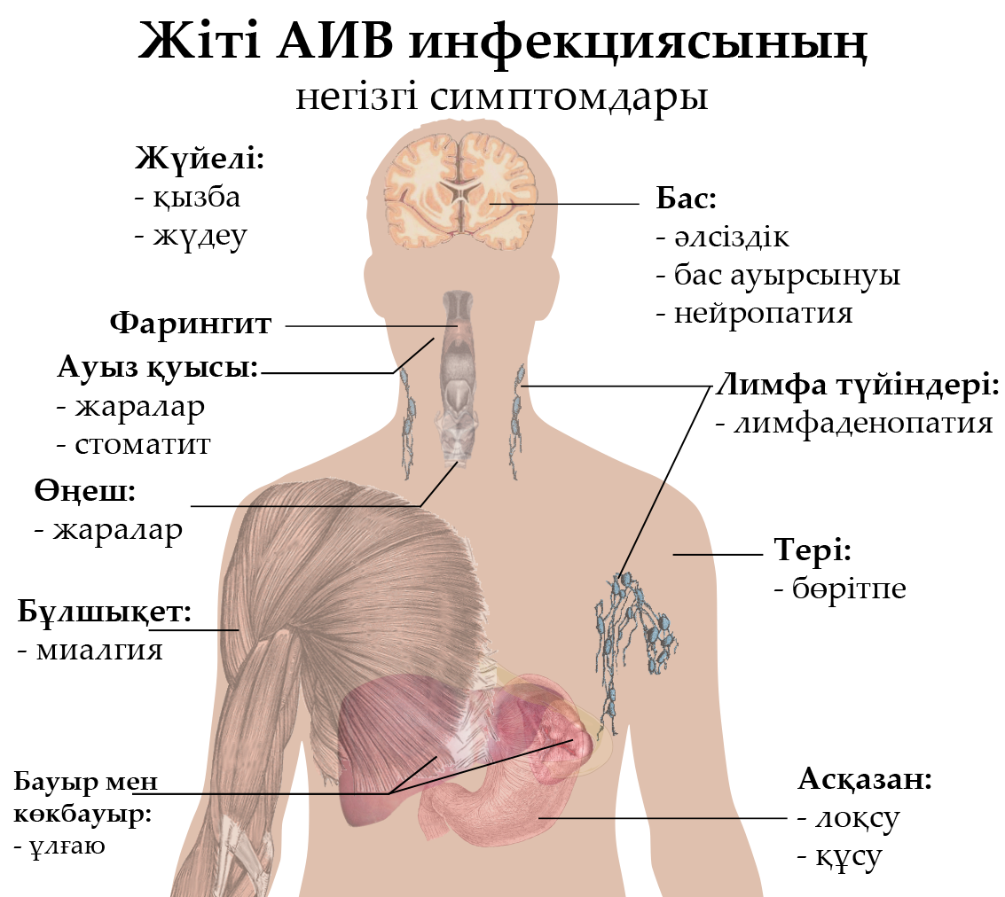 Main symptoms of acute HIV infection. Sources are found in main article: Wikipedia:Hiv#Acute_HIV_infection. To discuss image, please see Template talk:Human body diagrams